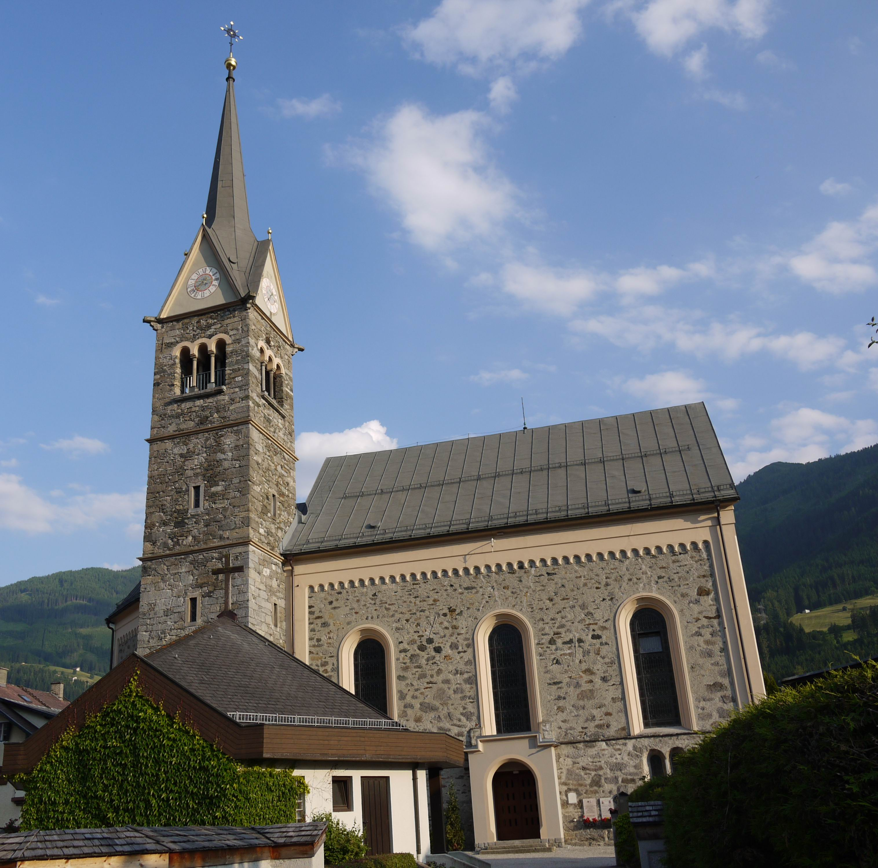 Church of Niedernsill